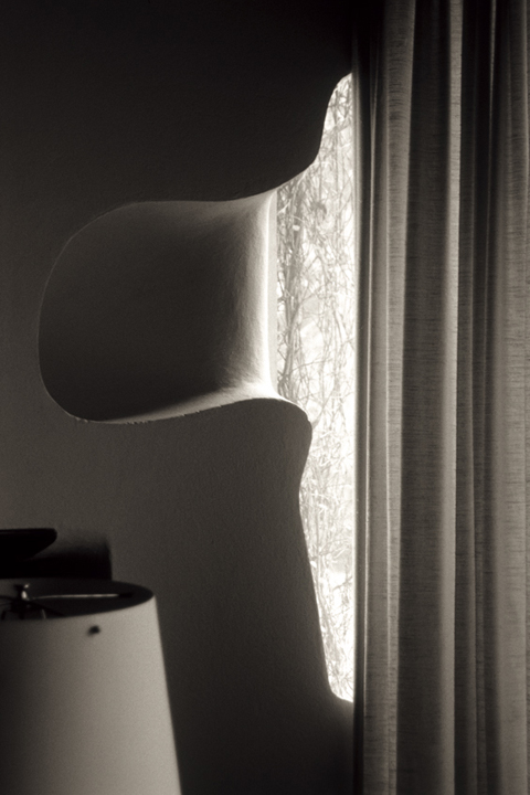 Fireplace, interior view at window